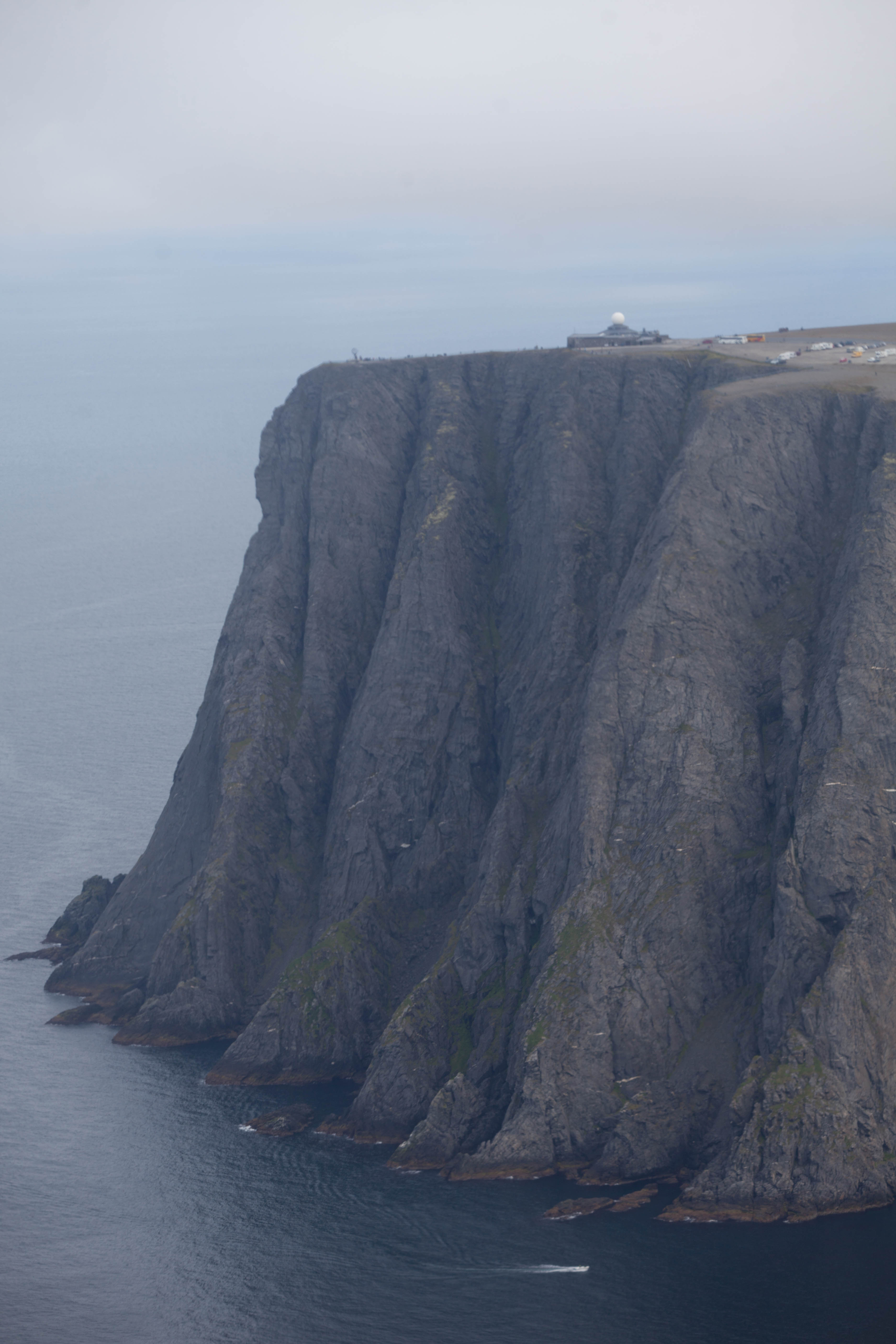 North Cape, most northern point of mainland Europe